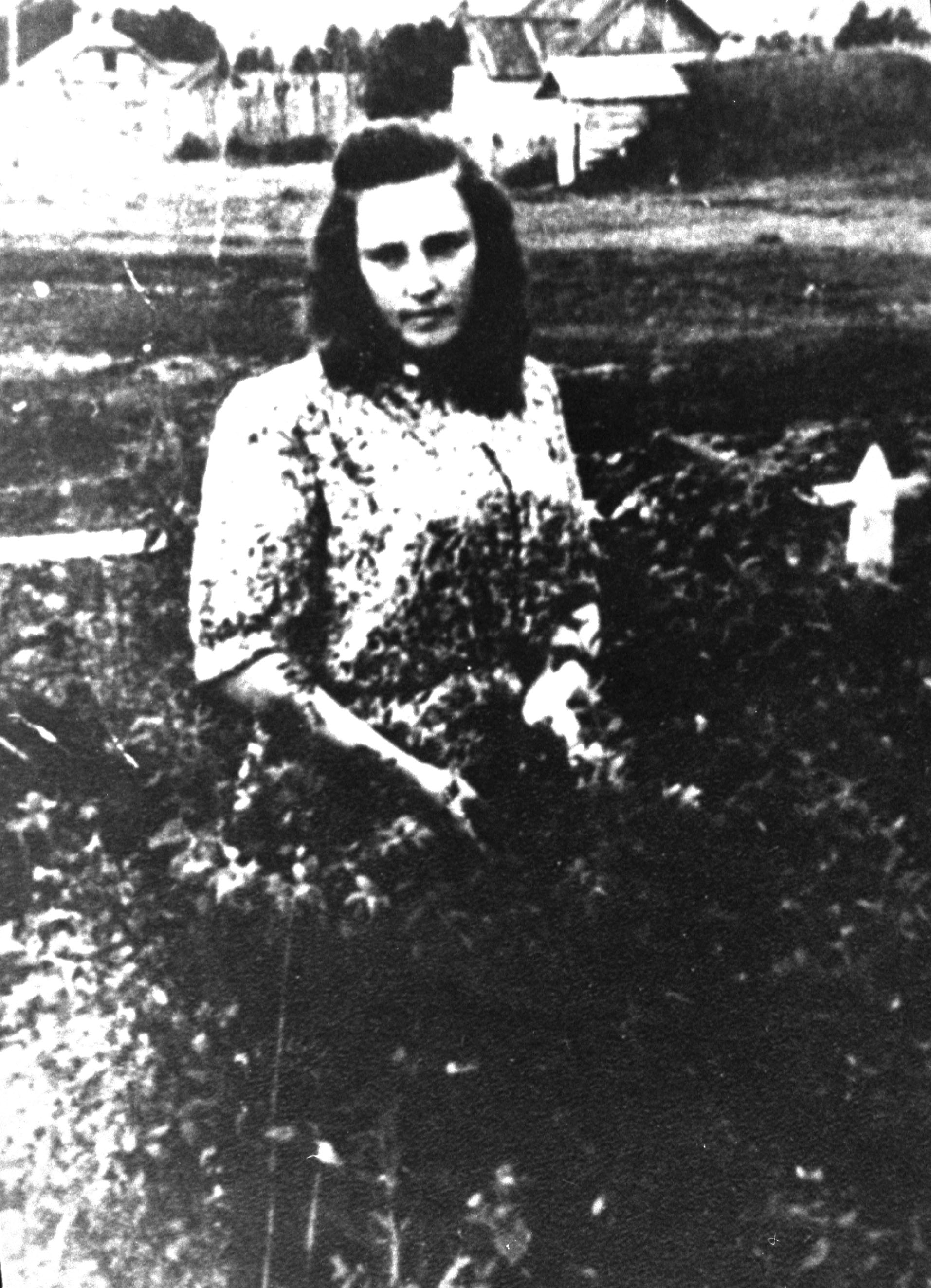 Albina Norkutė near women barracks in prison camp in Siberia